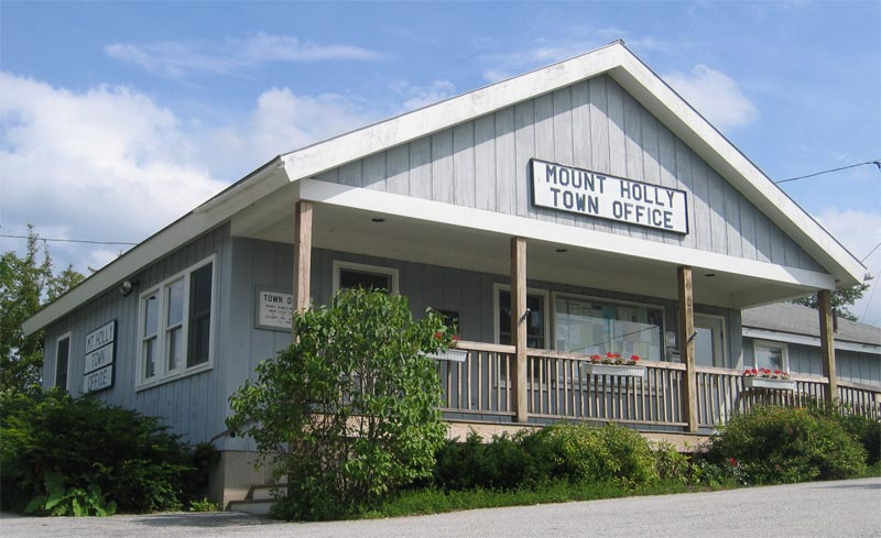 Photograph of Mount Holly, Vermont